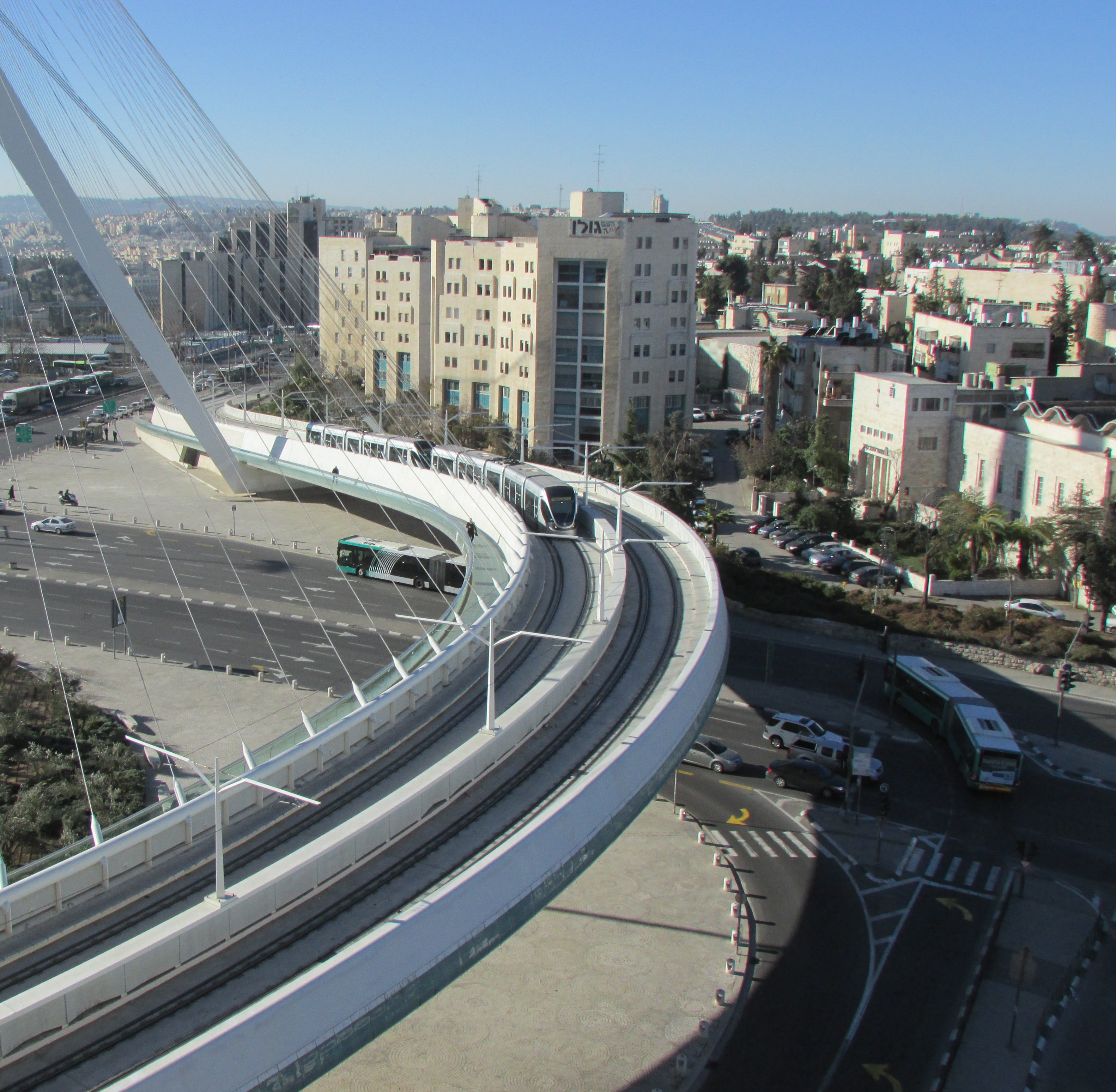 Tram on Jerusalem Chords Bridge